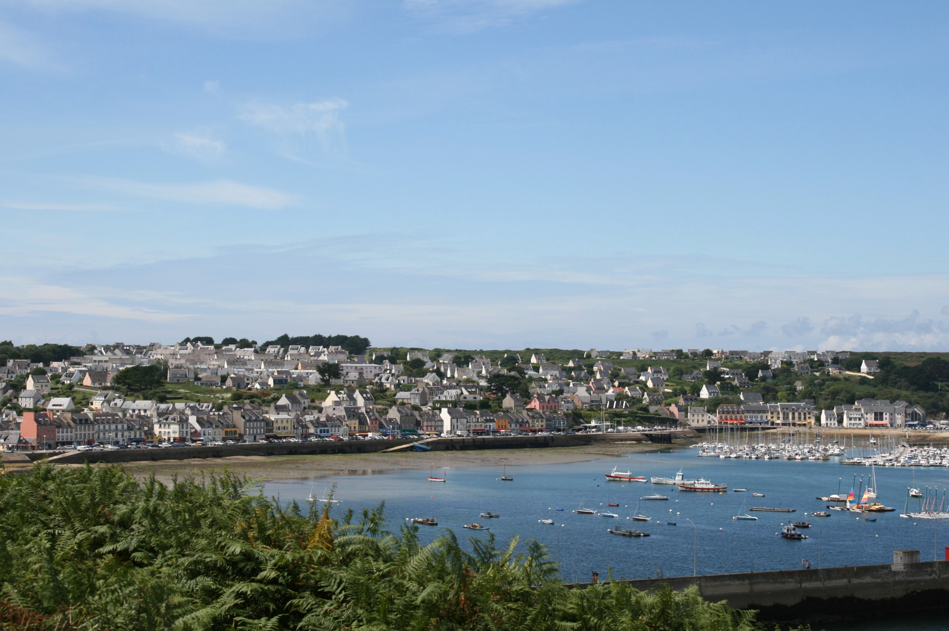 Harbor of Camaret-sur-Mer